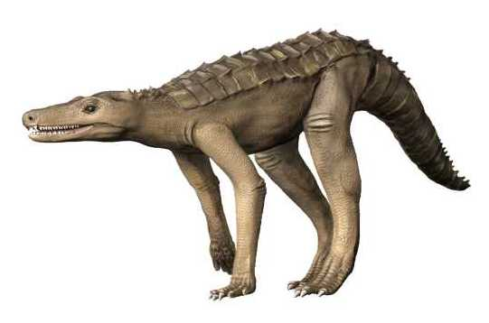 Hallopus